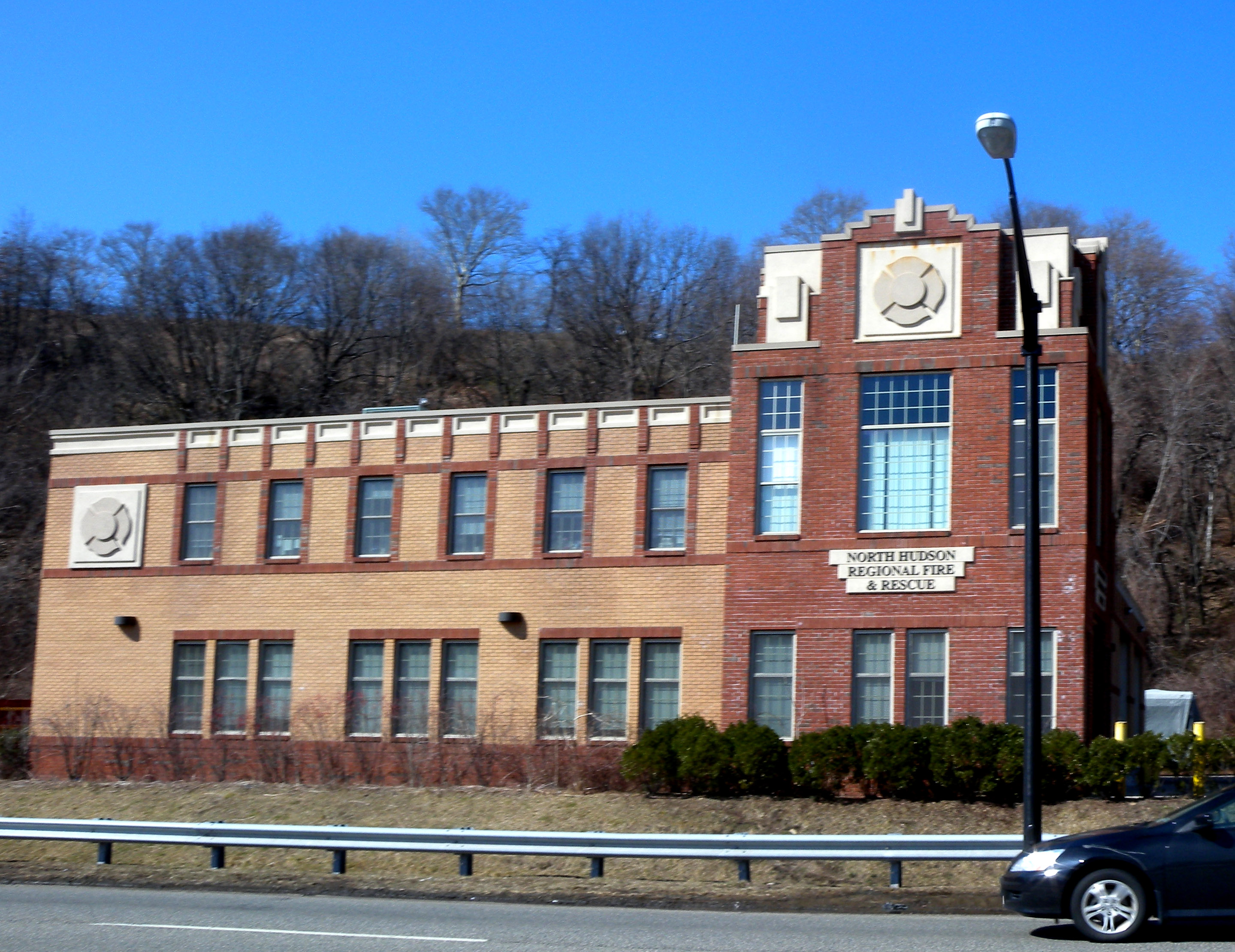 Looking west across River Road at North Hudson Fire and Rescue station on a sunny late morning.